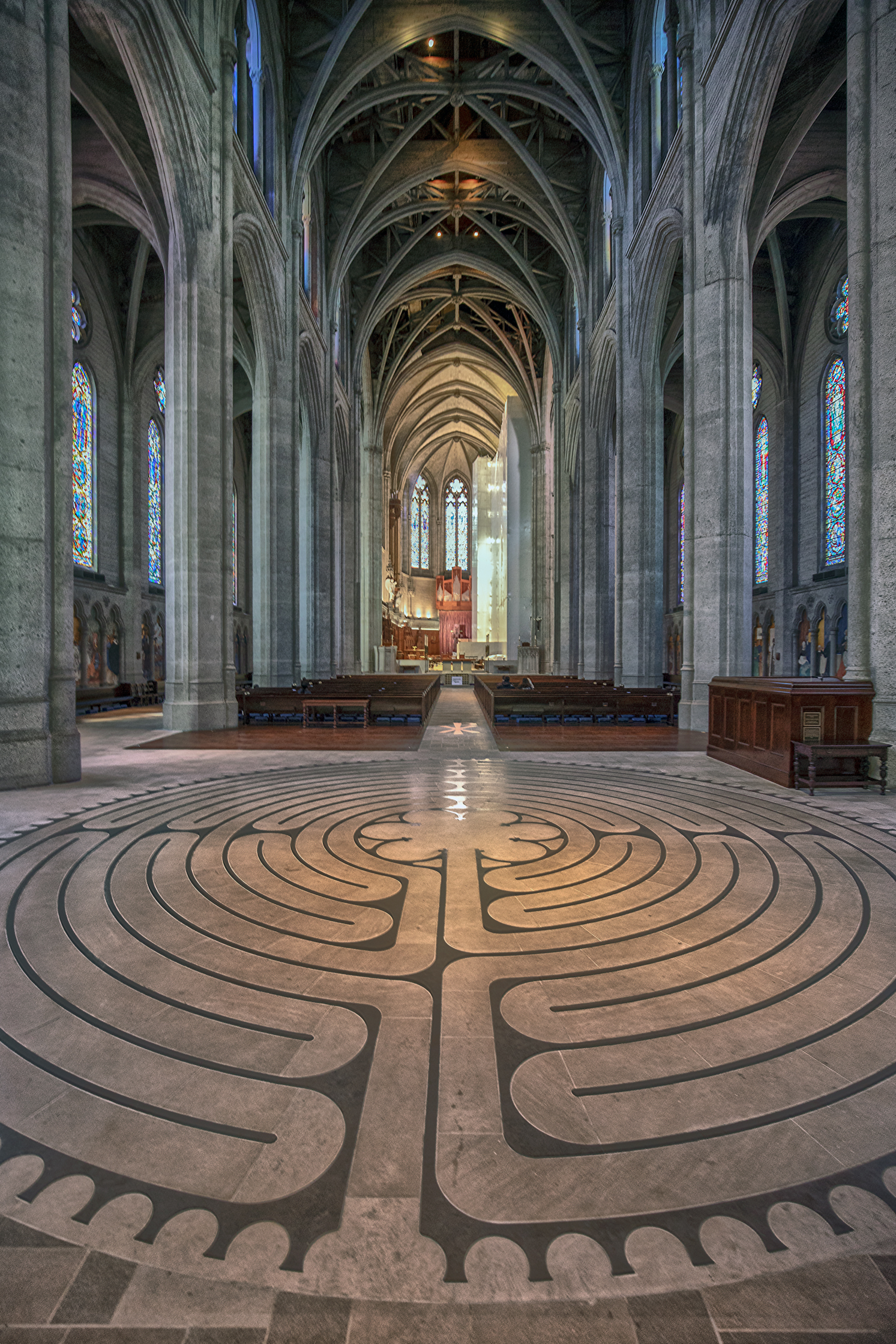 View from the nave with the labyrinth similar to Chartres.